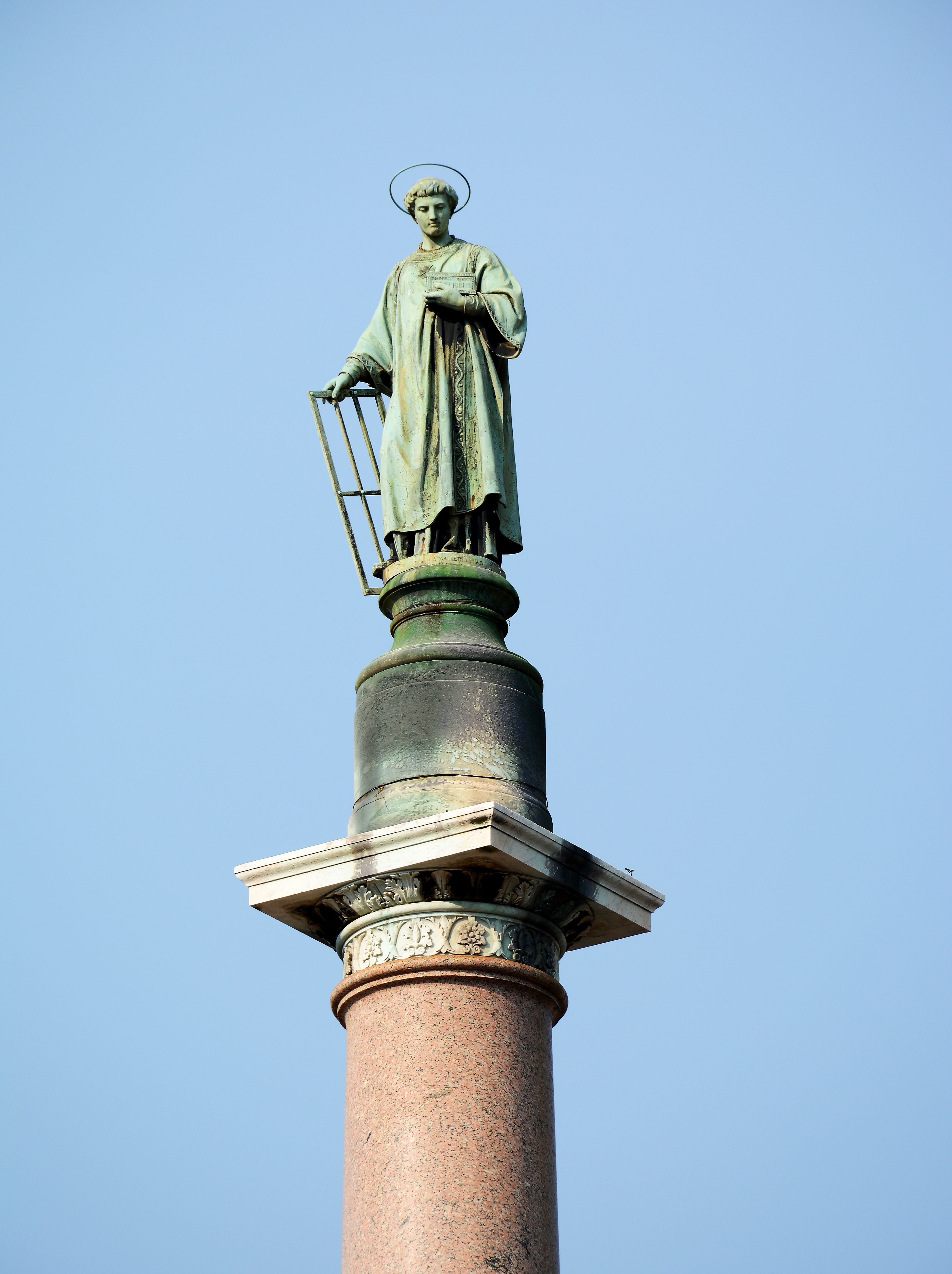 Statue of Saint Lorenzo in front of San Lorenzo fuori le mura (Rome)